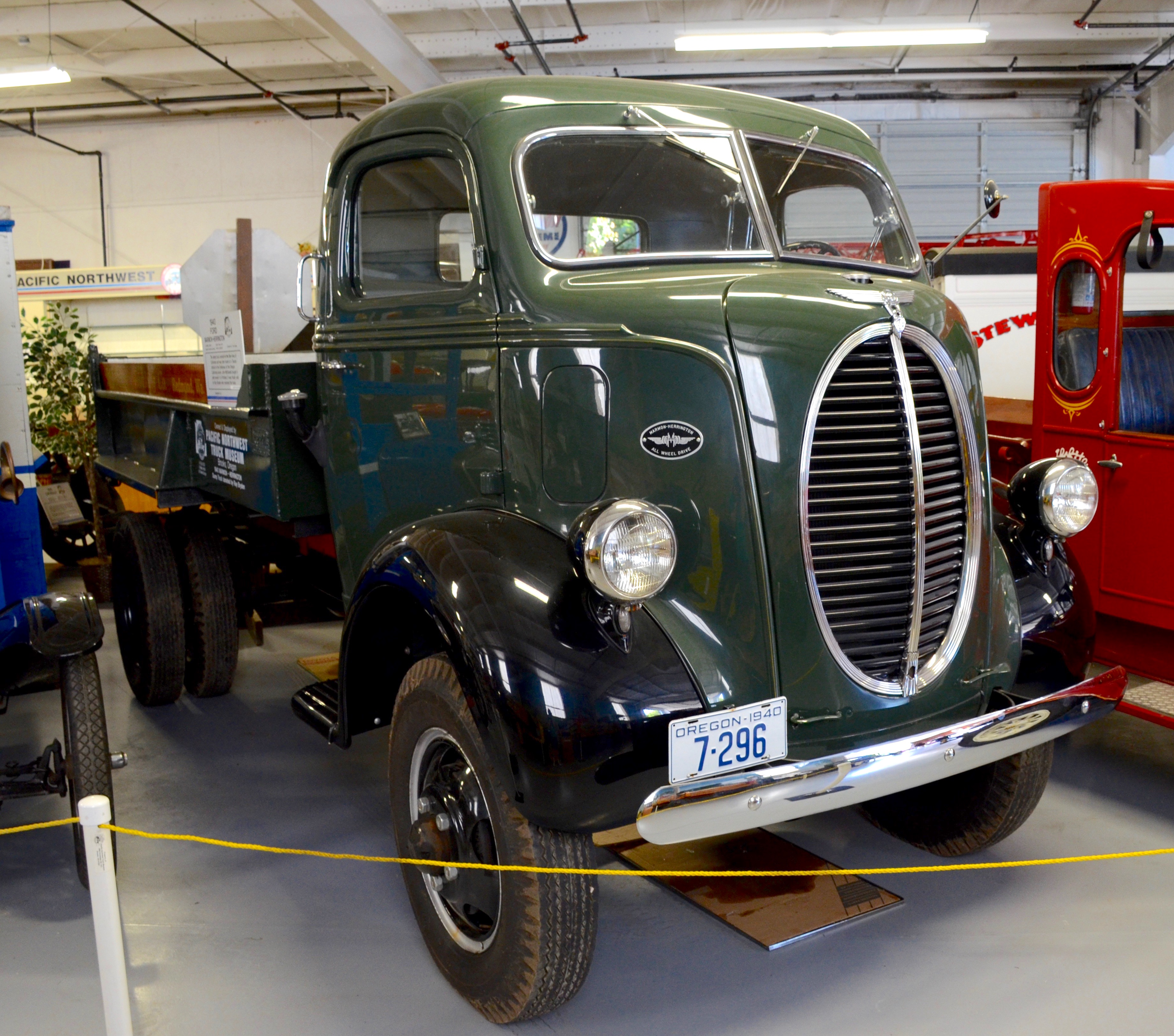 A 1940 Ford/Marmon-Herrington dump truck preserved at the Pacific Northwest Truck Museum, at Powerland Heritage Park, in Brooks, Oregon.